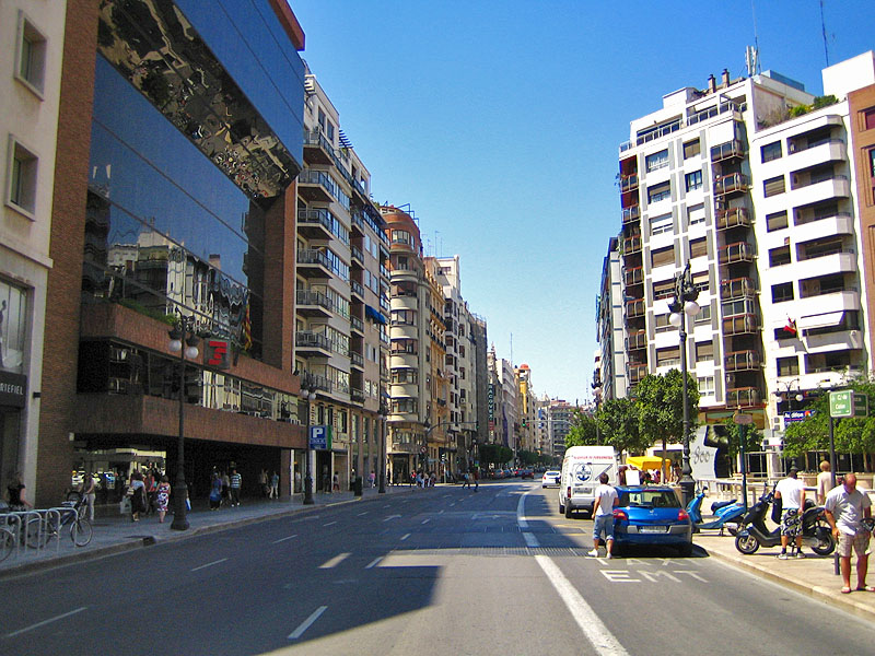 Picture of carrer de Colom (Colombus street) in Valencia, Spain.